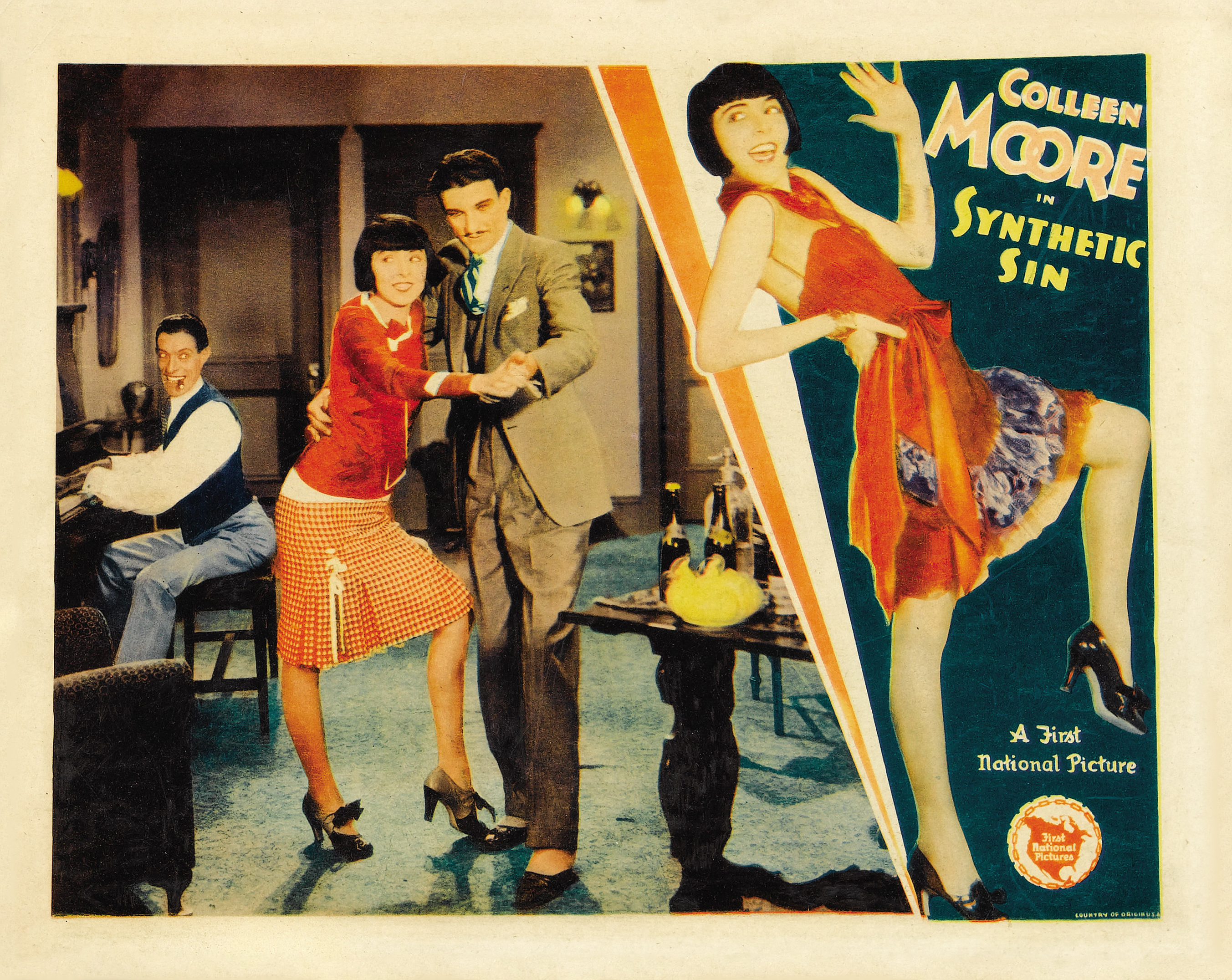 Poster from the American comedy film Synthetic Sin (1929) with Colleen Moore, Antonio Moreno, and Fred Warren (1880–1940). The item has no copyright markings on it as can be seen in the links above. At lower right is "Country of origin USA".